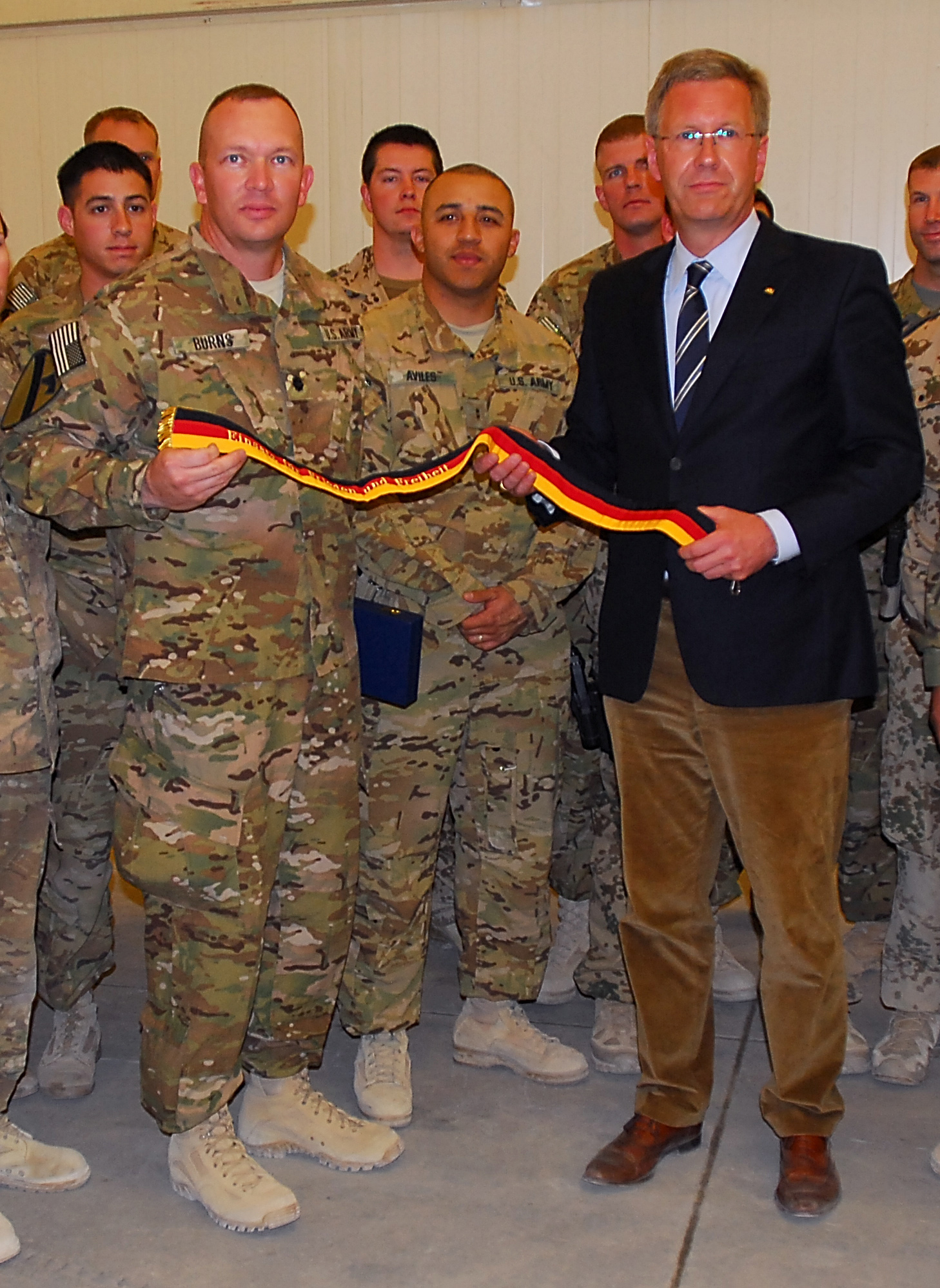 CAMP MARMAL, Afghanistan -- Lt. Col. Michael Burns (left), a native of New Brockton, Alabama, holds a streamer awarded to the 1st ACB with President Christian Wulff of Germany (right) October 17. Wulff talked with key leaders and soldiers during a surprise visit of coalition base Camp Marmal and honored the1st ACB with this streamer.